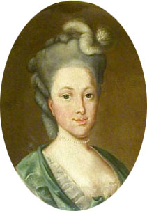 Princess Wilhelmina Caroline of Denmark